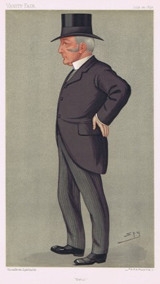 Caricature of Mr Philip Albert Muntz MP. Caption read "Metal".